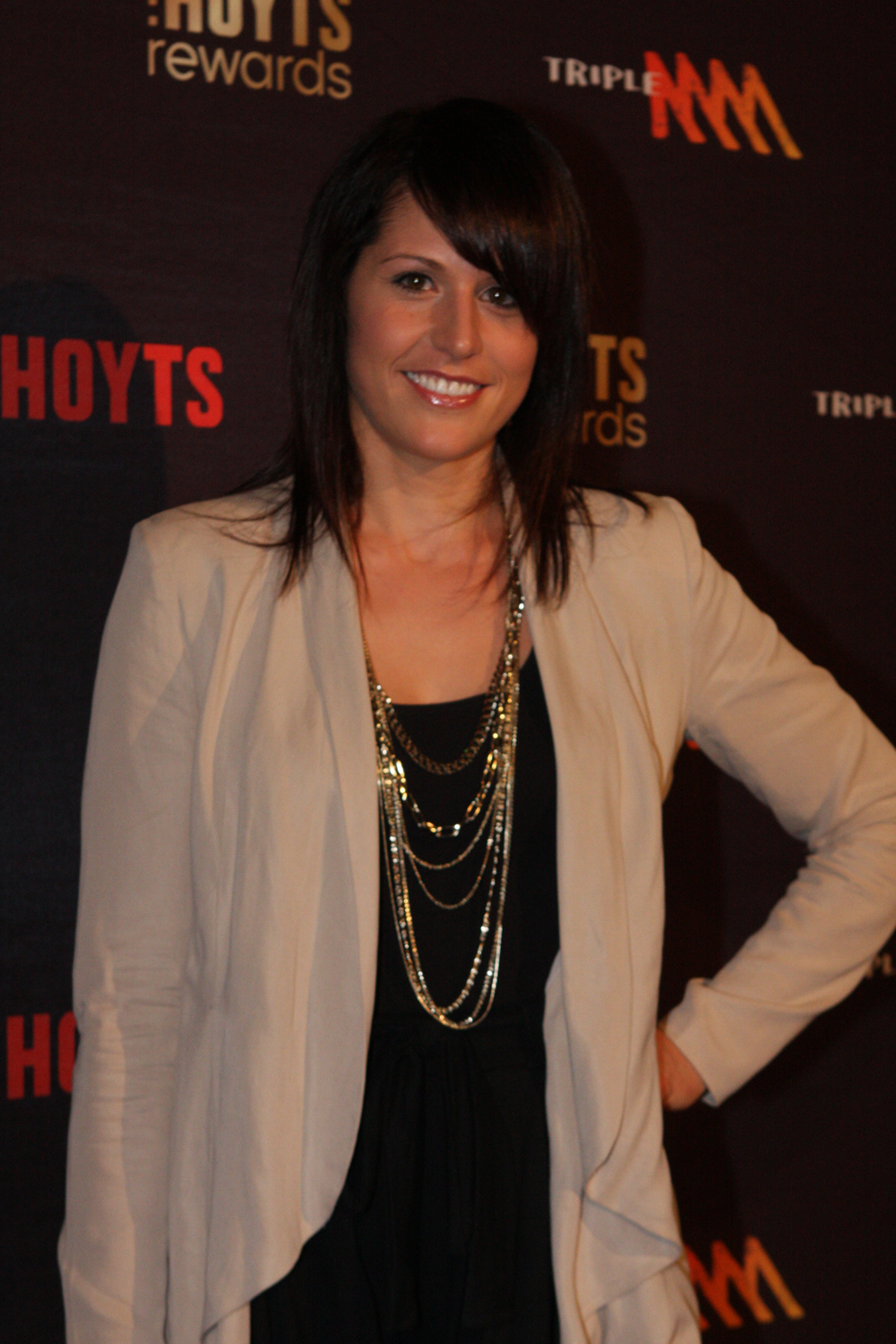 The Nullarbor Nymph opens and plays red carpet at Entertainment Quarter, Fox Studios, Sydney Merrick & The Highway Patrol threw a huge premiere for ‘The Nullarbor Nymph’ tonight at Hoyts, Fox Studios Australia - Entertainment Quarter, in Sydney. 'The Nullarbor Nymph' was made in the small Australian town of Ceduna and stars mainly local farmers. The film’s director Mathew Wilkinson had to clean toilets for months, just so that he could fund it. The movie has been turned away from every film festival in the world, so Merrick & The Highway Patrol want to get behind this tiny Aussie film by rolling out the red carpet and giving it the premiere it deserves! 'The Nullarbor Nymph' is a mockumentry following two Water Australia employees as they travel across the Nullarbor Plain only to be hunted down by the mythological creature the Nullarbor Nymph, a blonde, seductive temptress wearing kangaroo skins with a taste for destruction. Director: Mathew J. Wilkinson Writer: Mathew J. Wilkinson Stars: Douglas Feary, Paul Hayman and Jessica Sterling Websites The Nullarbor Nymph Facebook Triple M - Merrick And The Highway Patrol Eva Rinaldi Photography Flickr Eva Rinaldi Photography